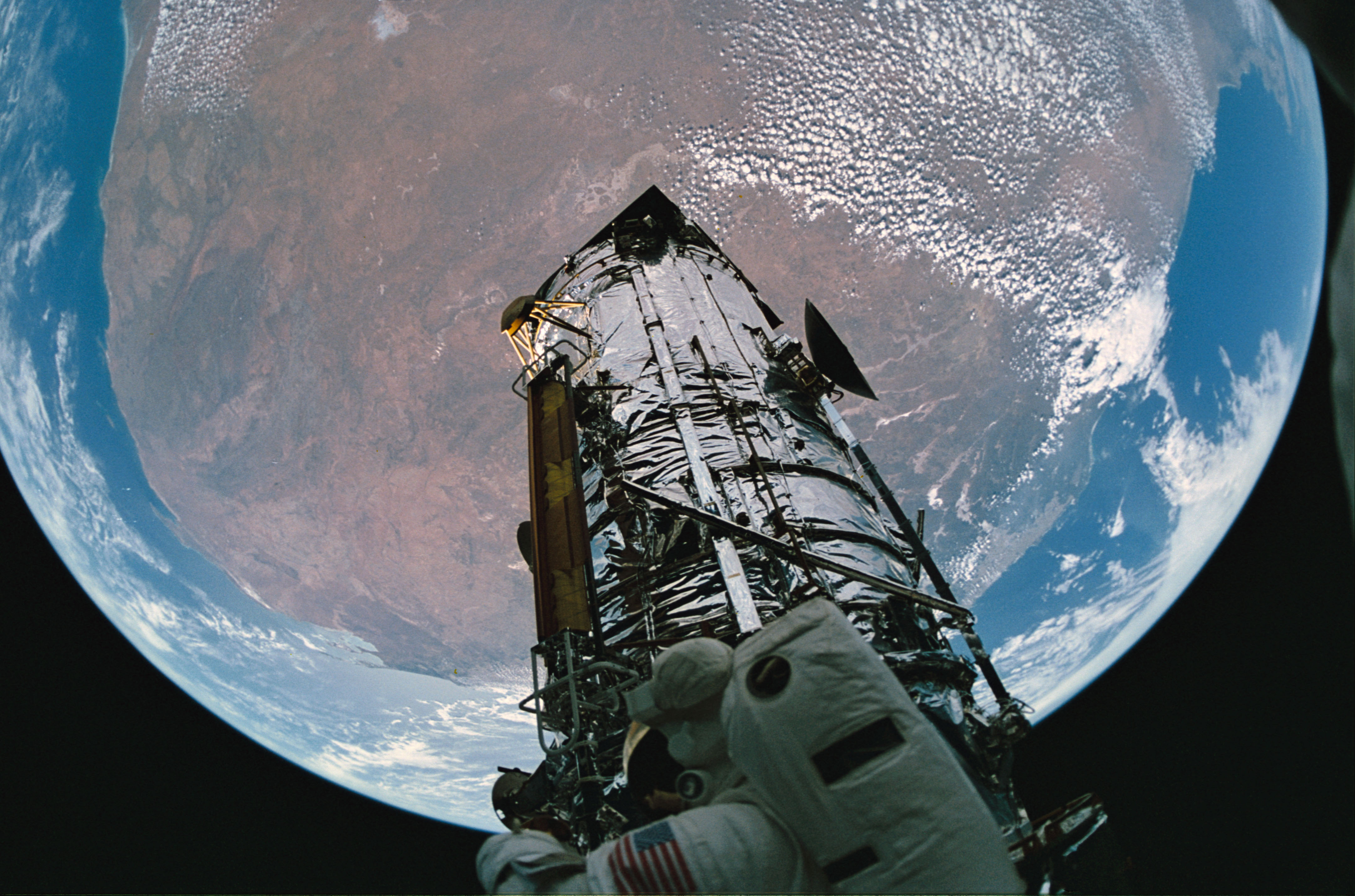 A fish-eye lens was used to capture the Hubble Space Telescope (HST), Earth, and the Australian landmass during the final extravehicular activity (EVA) on the STS-61 HST first servicing mission in December 1993. Story Musgrave can be seen at bottom of the frame.